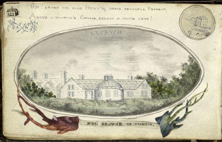 A page of Anne Wagner's scrapbook devoted to Mrs. Browne of Gwrych, 1795 to 1834